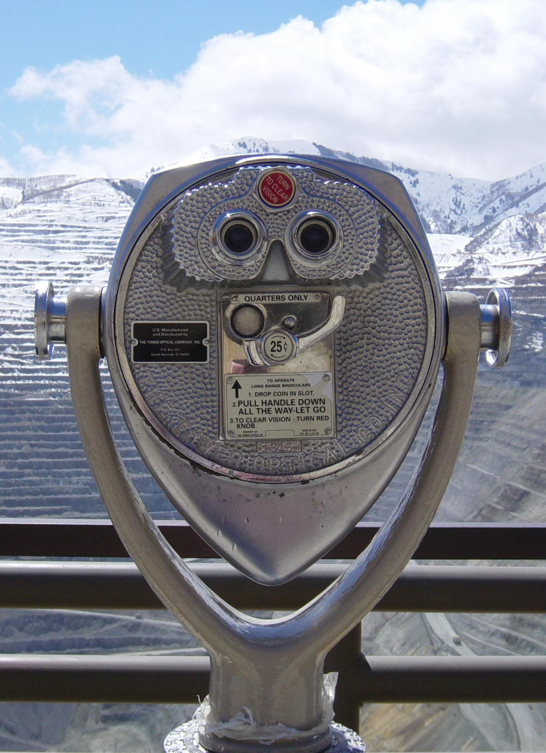 Coin operated binoculars, manufactured by the Tower Optical Company, photographed in Utah during April 2005.